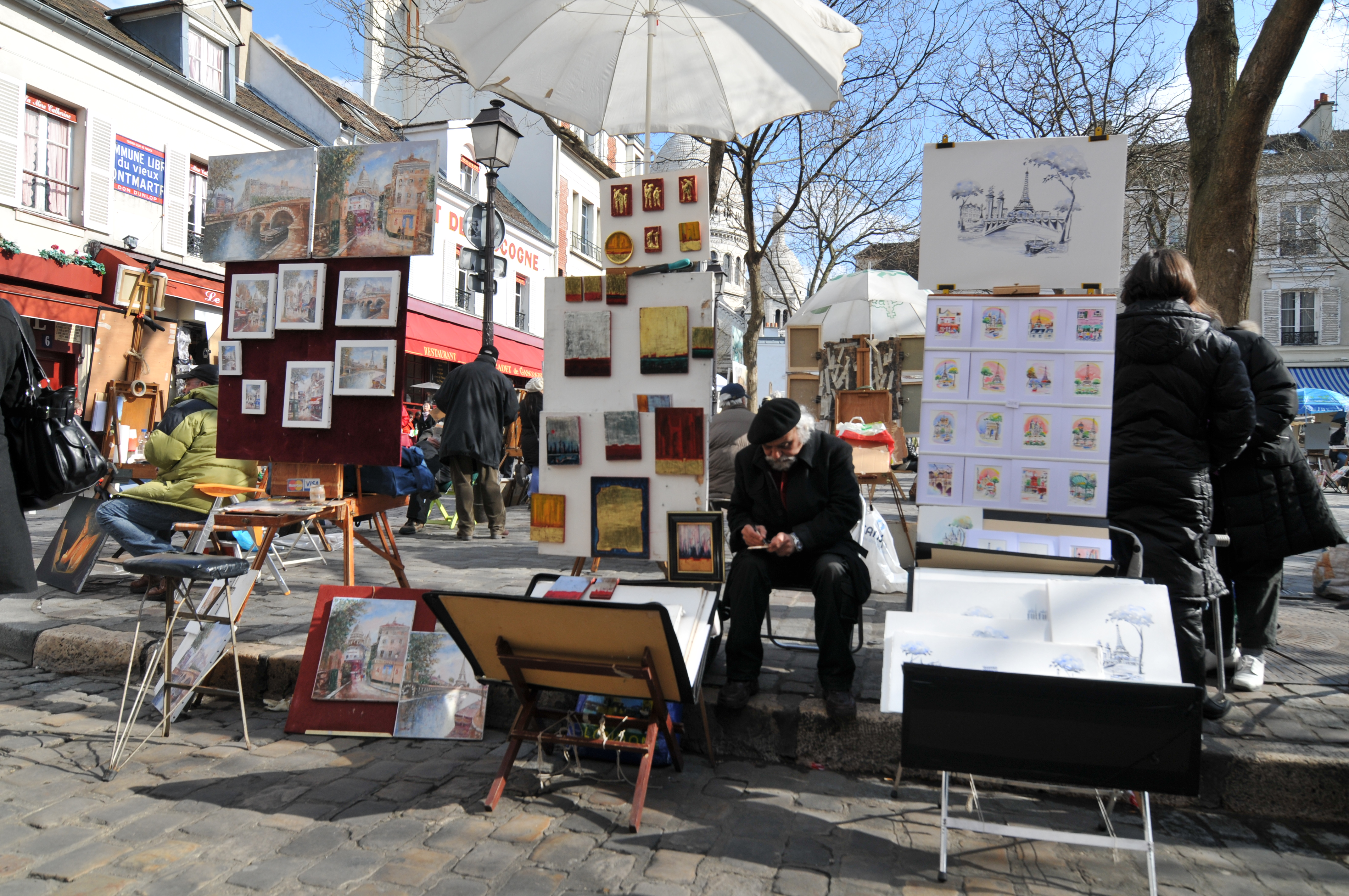 Painters at Montmartre March 2, 2009